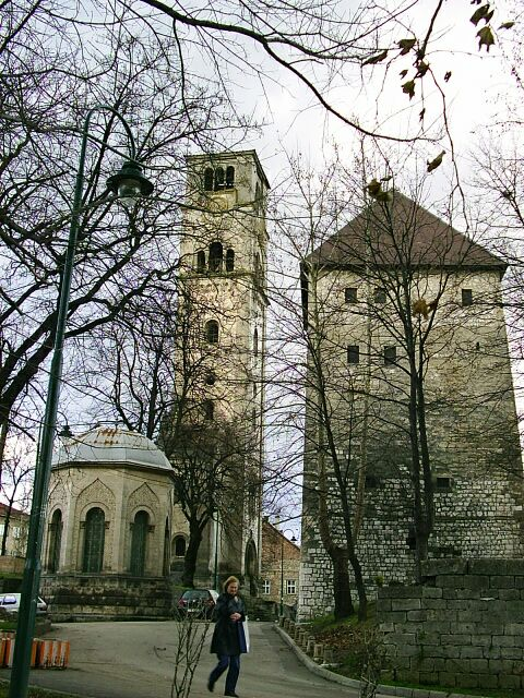 Kapetan tower and a turbe in Bihać, Bosnia and Herzegovina